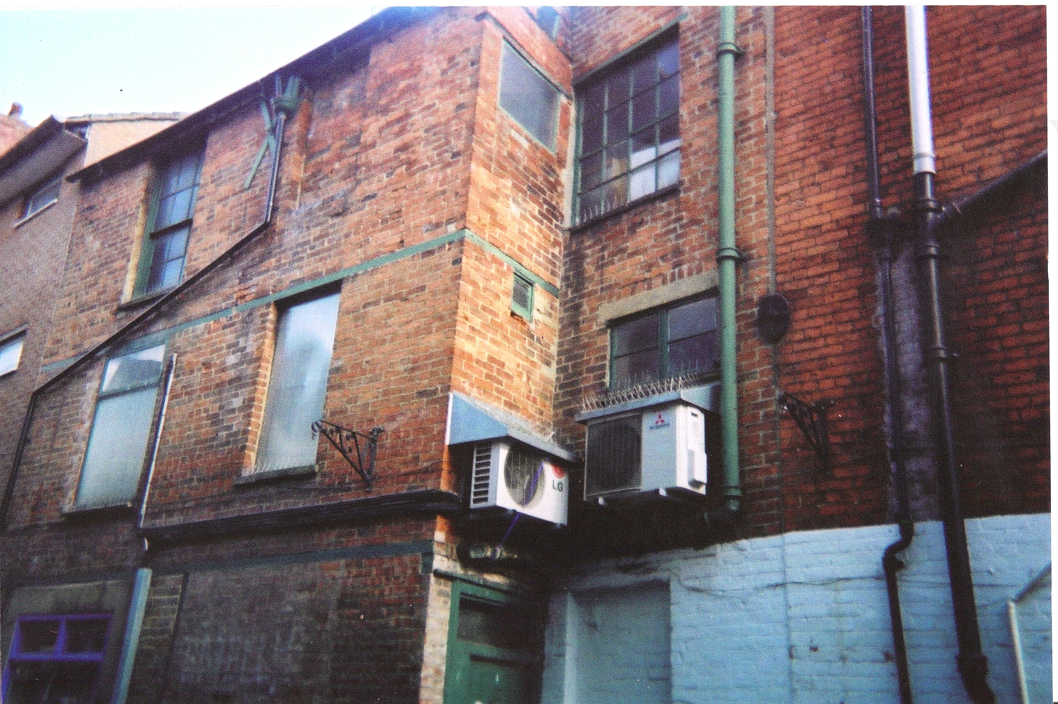 I took the picture of these Mitsubishi and LG Electronics Air conditioning unit my self at a Banbury shopping mall in the year 2010. I here by release it in to the public domain.